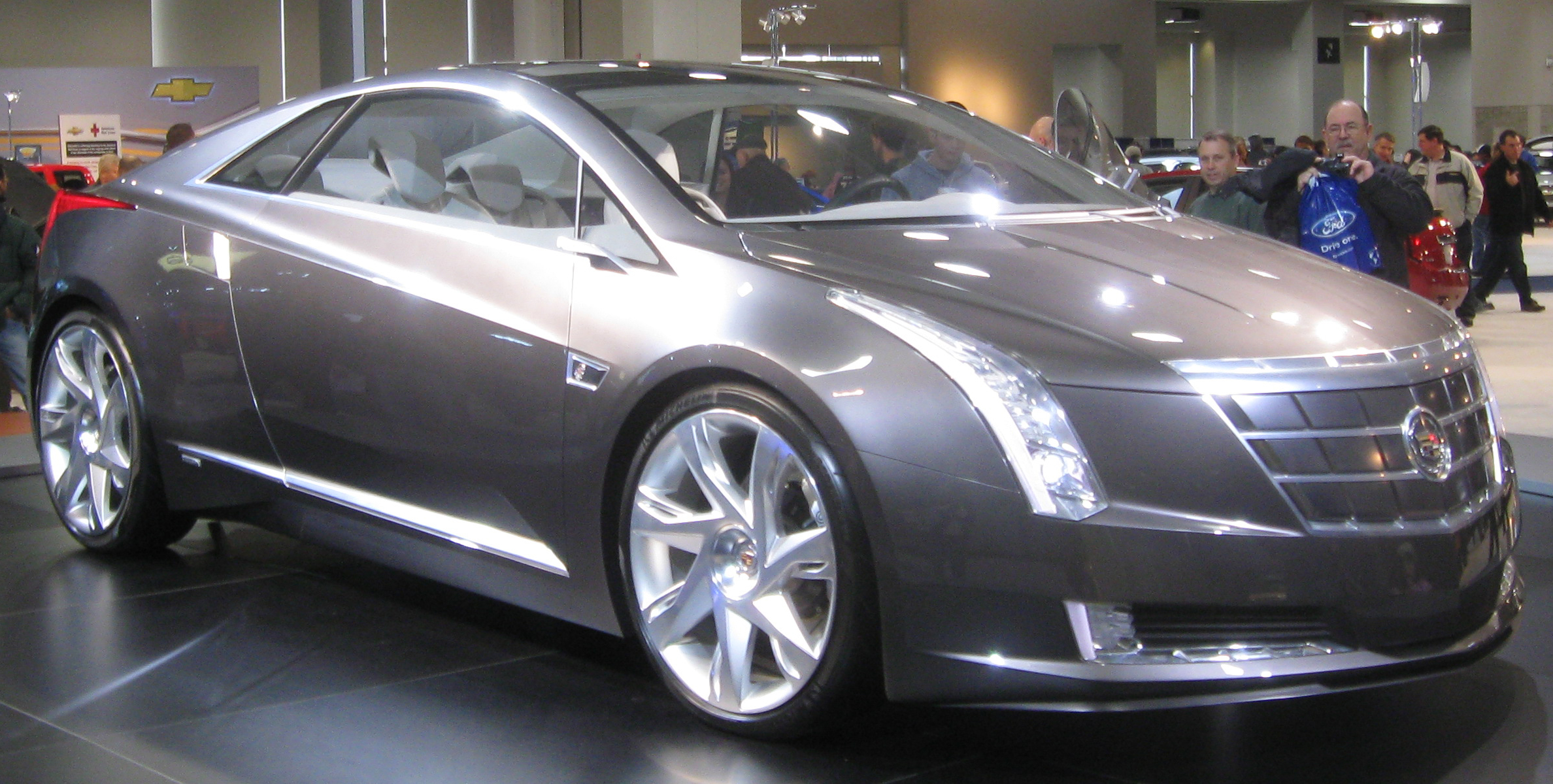 Cadillac Converj concept photographed at the 2010 Washington Auto Show.